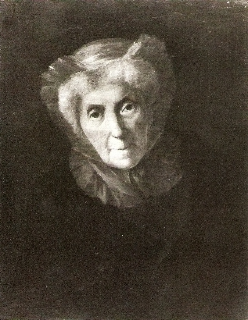 Polish Duchess Izabela Czartoryska in old age